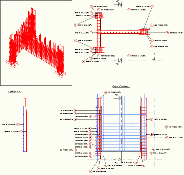 Reinforcement drawing created using Advance Concrete